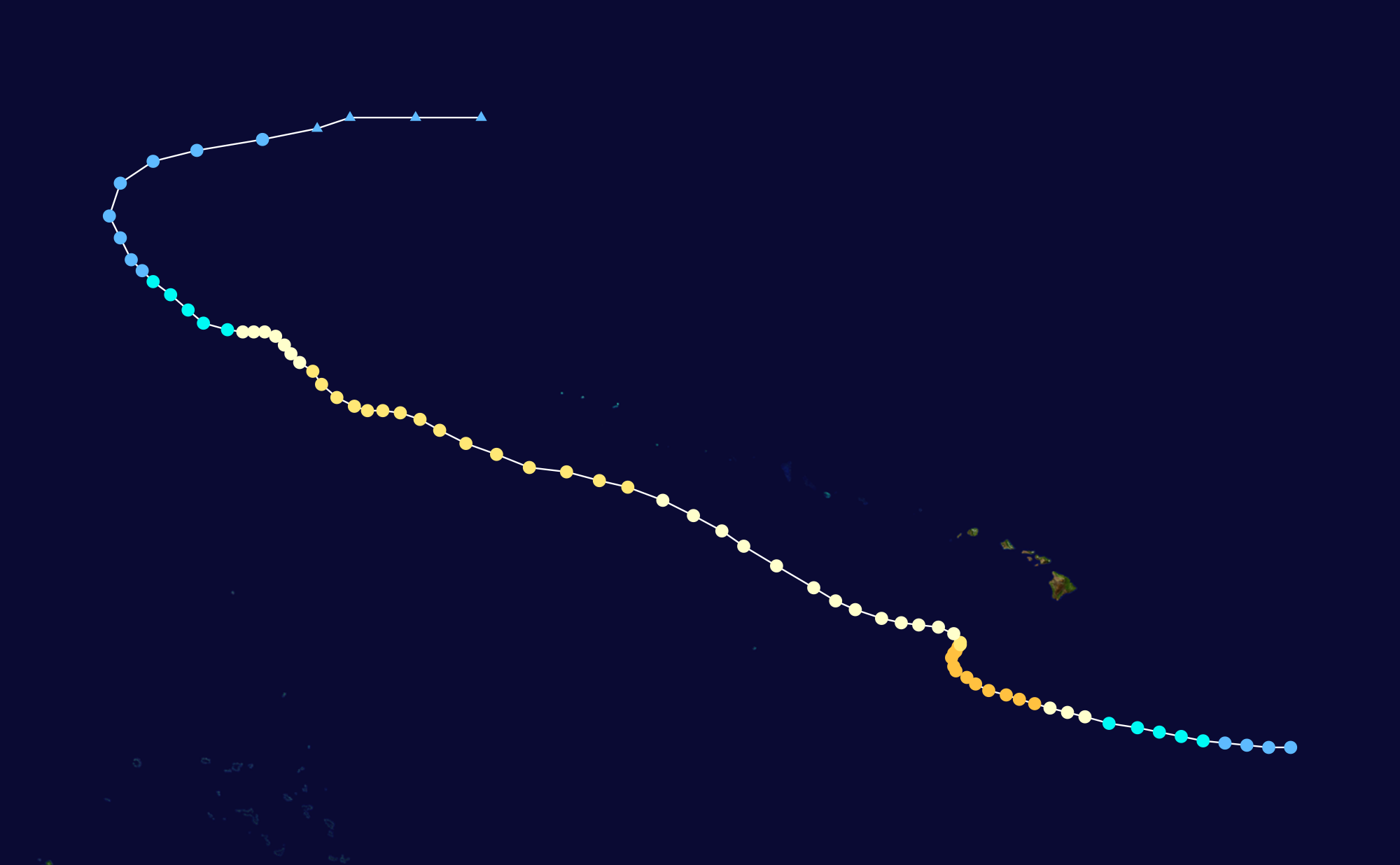 Hurricane Uleki (1988) track. Uses the color scheme from the Saffir-Simpson Hurricane Scale.